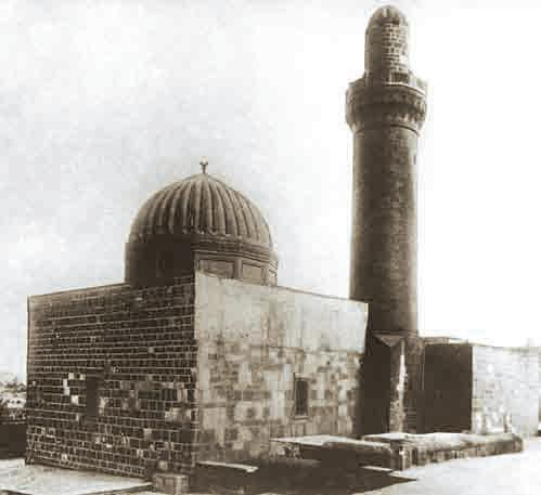 Bibi Eybat Mosque